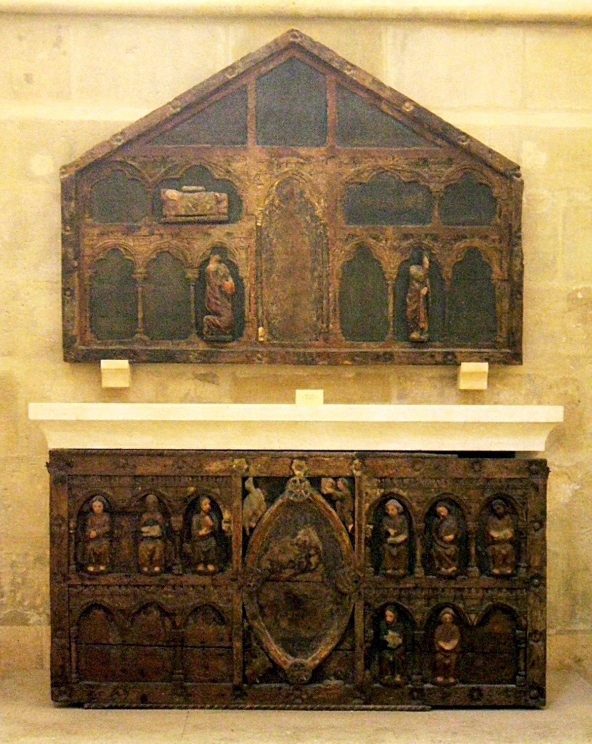 Retablo romano de la Capilla de San Nicolás, Catedral de Burgos